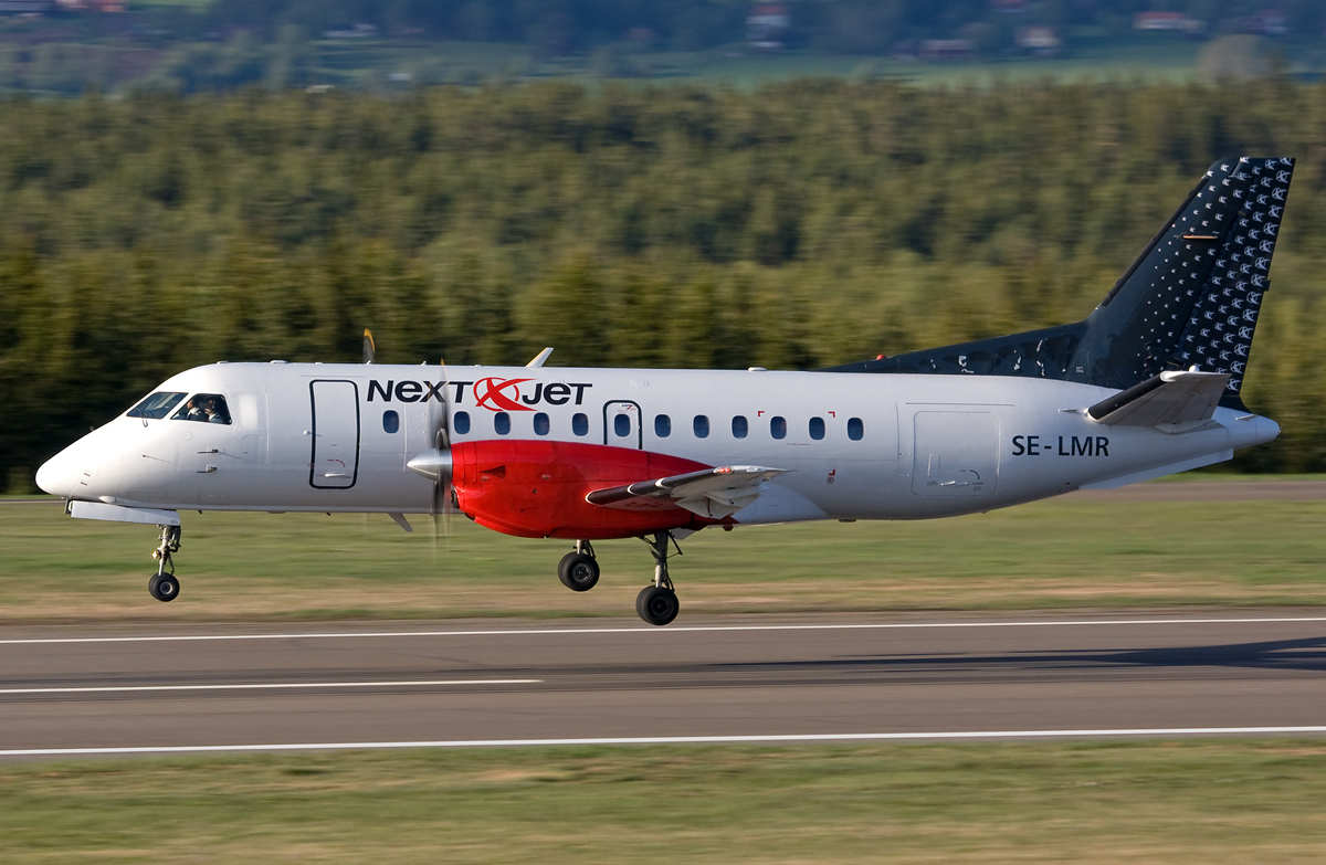 A Saab 340 of Nextjet (immatriculated SE-LMR) photographed landing at OSD airport